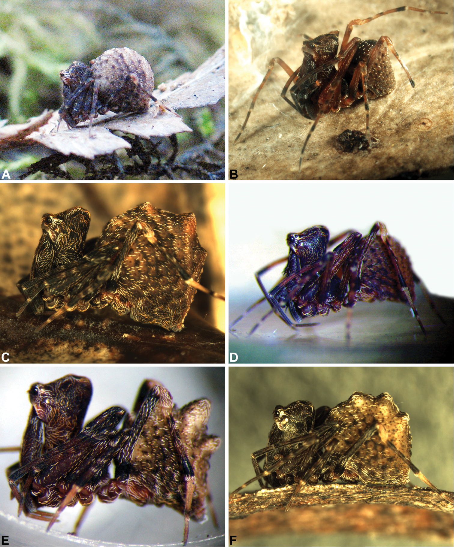 Habitus images of live Archaeidae from southern Australia: A – paratype female Zephyrarchaea vichickmani sp. n. from Acheron Gap, Central Highlands, Victoria; B – holotype male Zephyrarchaea barrettae sp. n. from Talyuberlup Peak, Stirling Range National Park, Western Australia; C – paratype female Zephyrarchaea janineae sp. n. from Karri Valley, Western Australia; D – male Zephyrarchaea marki sp. n. from Thistle Cove, Cape Le Grand National Park, Western Australia; E – female Zephyrarchaea mainae (Platnick) from William Bay National Park, Western Australia; F – female Zephyrarchaea mainae from Bremer Bay, Western Australia.